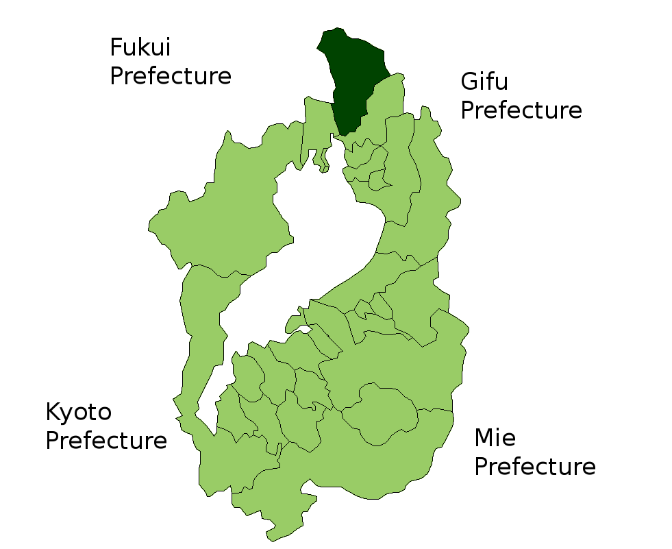 Location Map of Yogo in Shiga Prefecture, Japan